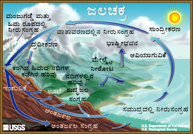 Water-Cycle Diagram (Kannada) ಕನ್ನಡ: ಸರಿಯಿಲ್ಲದ ಹೆಸರು (ಕನ್ನಡ)